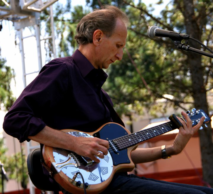 Terry Robb at the 2011 Bronze, Blues & Brews Festival in Joseph, Ore.